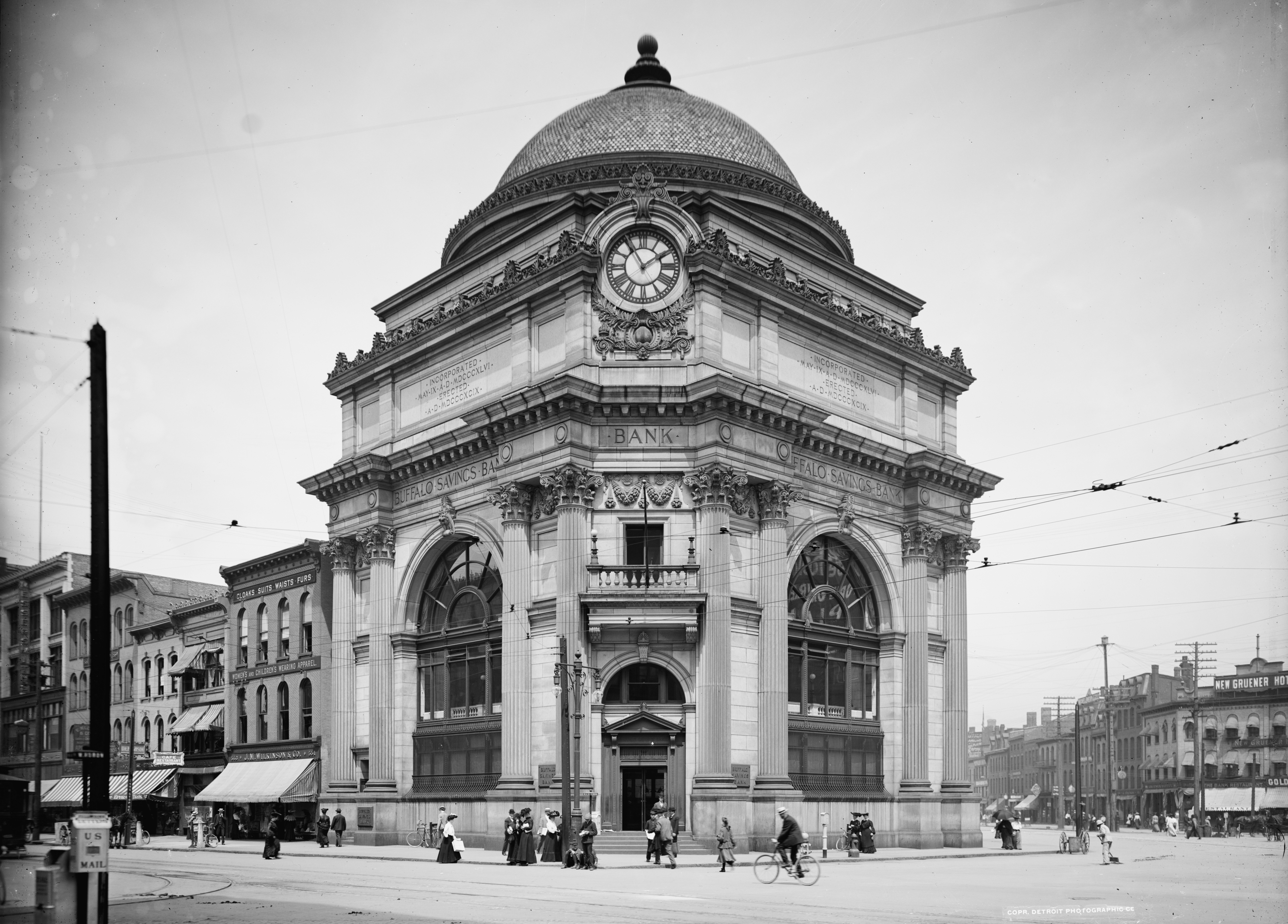 Buffalo Savings Bank, 545 Main Street, Buffalo, NY